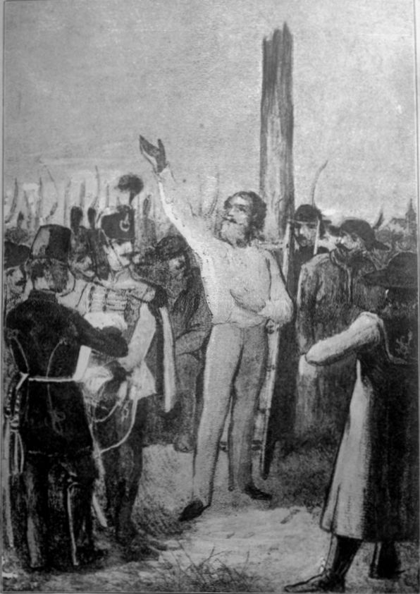 Zichy Ödön kivégzése 1848. szeptember 30-án Lóréven